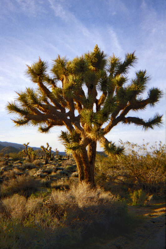 Joshua Tree National Park, California, USA - the Joshua tree (Yucca brevifolia) is a species of yucca found in the southwestern United States